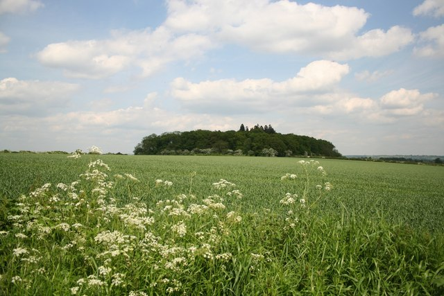 High Walks. Small wood known as High Walks crowning a low hill west of Haddington.